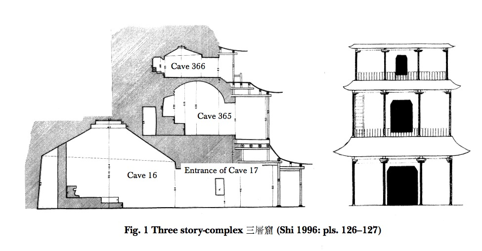 Map, showing the original entrance to Cave 17, the “library cave” in Dunhuang